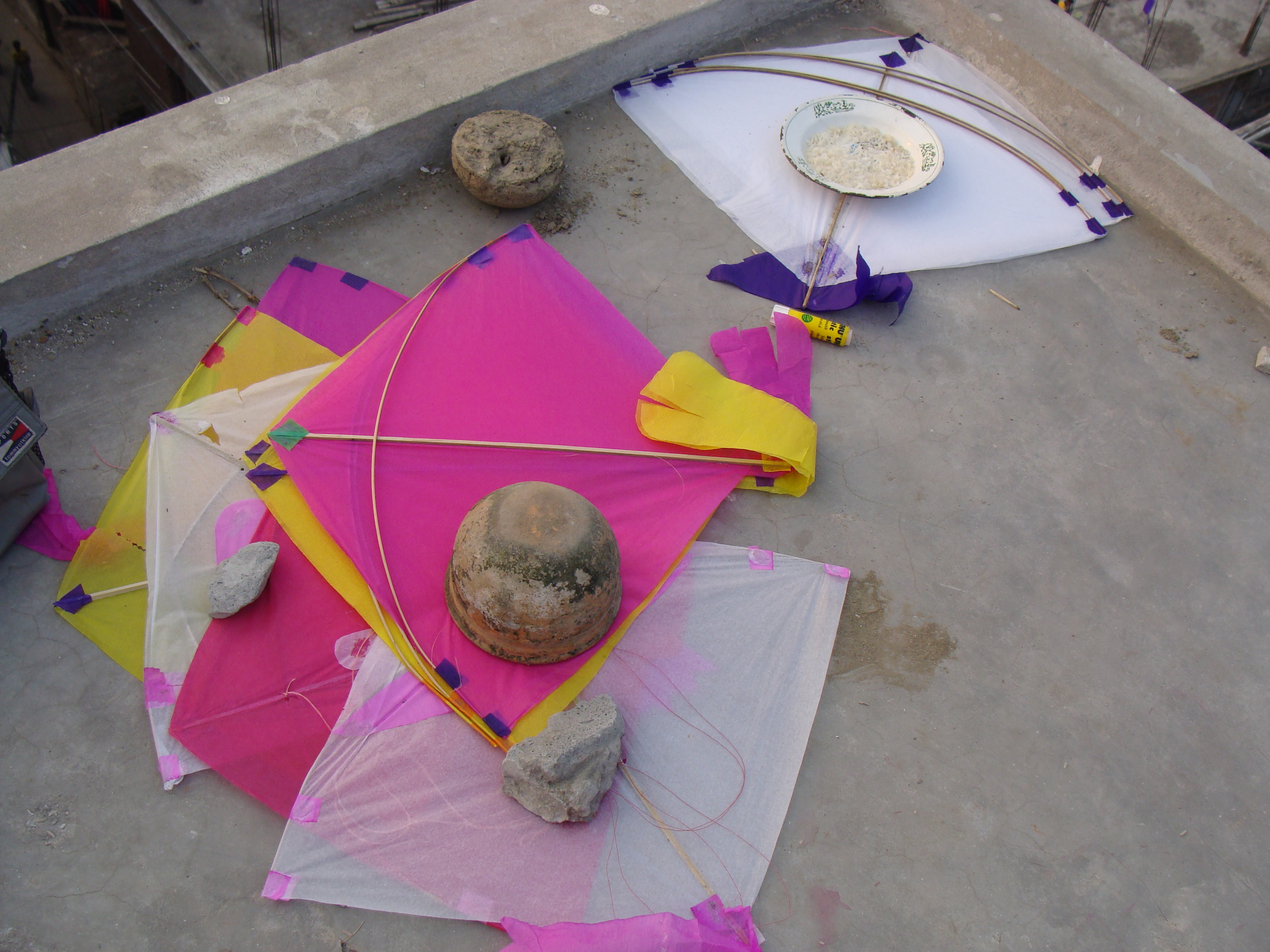 Kite making on the roof of a house in Bangladesh